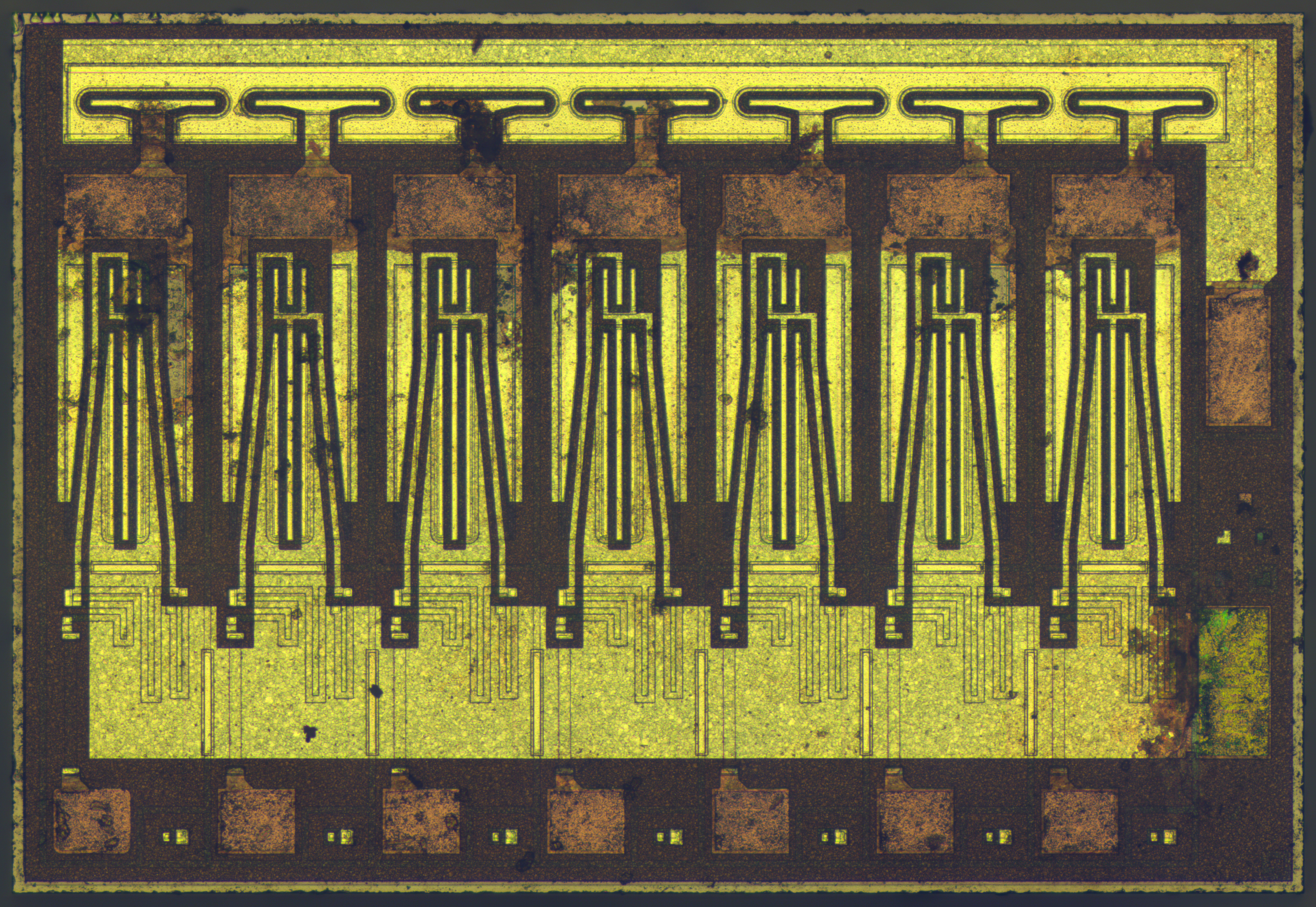 Microphotograph of semiconductor chip die for ULN2003 transistor array integrated circuit.